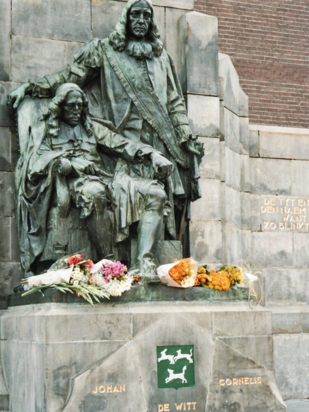 Birthday of Johan de Witt celebrated by the Friends of De Witt in Dordrecht.